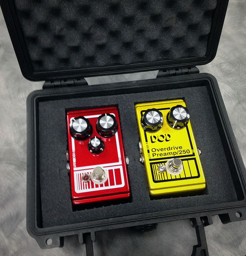 Photo of DOD protoypes shown at NAMM 2011